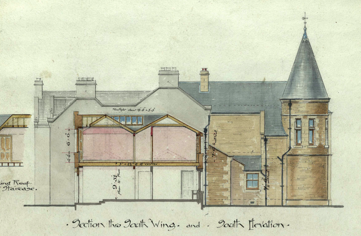 South Elevation from 1892 Gillespie and Scott Drawings. Original in Special Collections at St Andrews University, Fife.